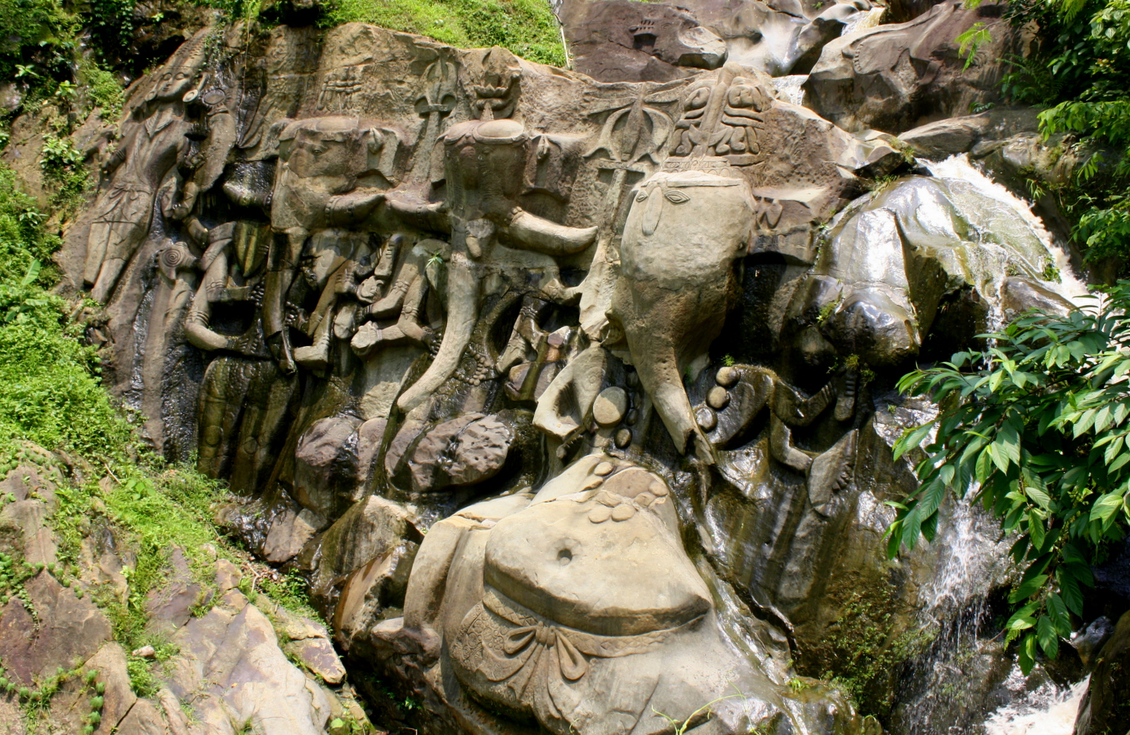 Unakoti ( ঊনকোটি), Tripura, India